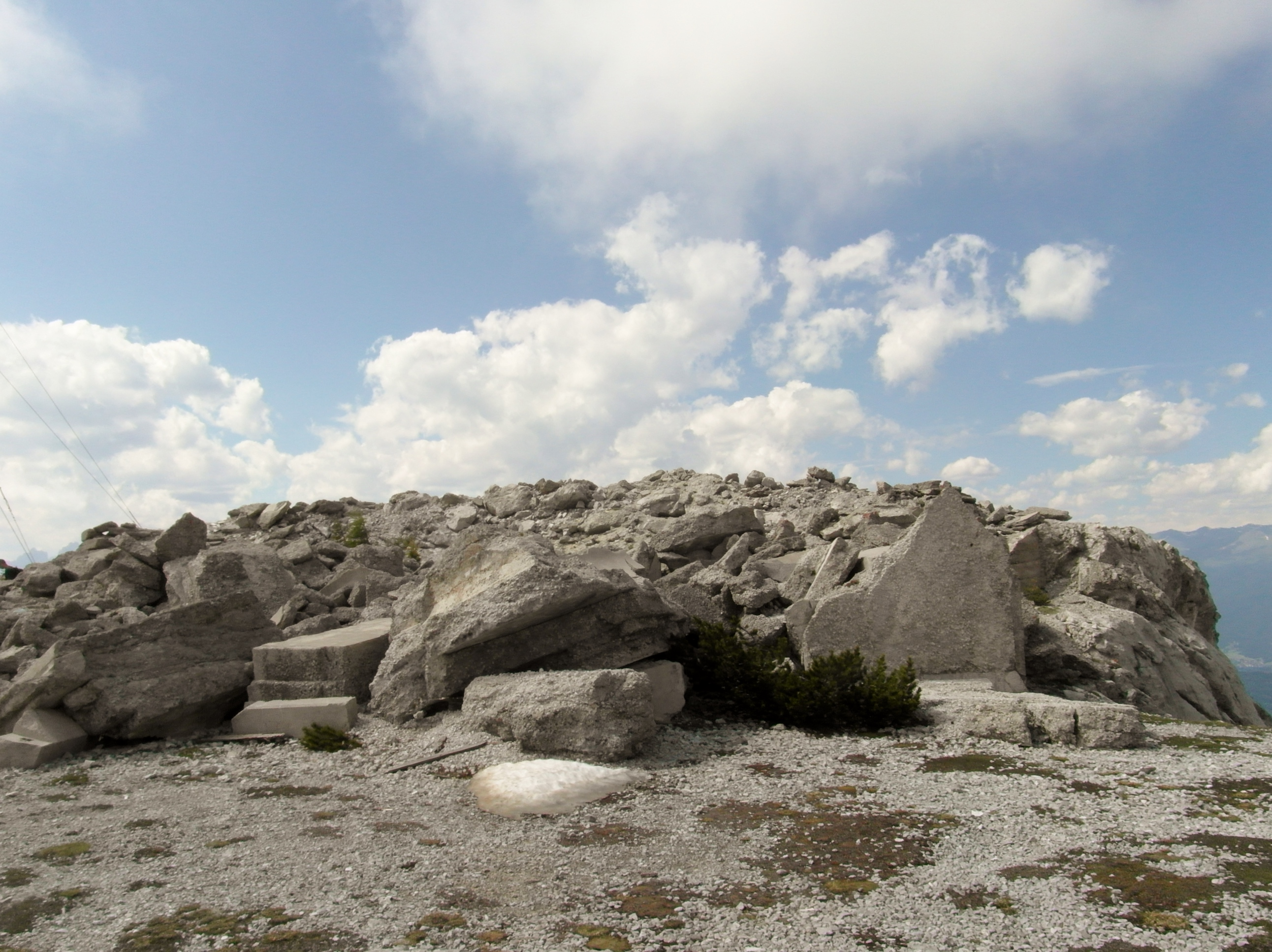 Ruines of forte Tudaio, Italy